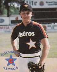 Professional baseball player Dave Rohde